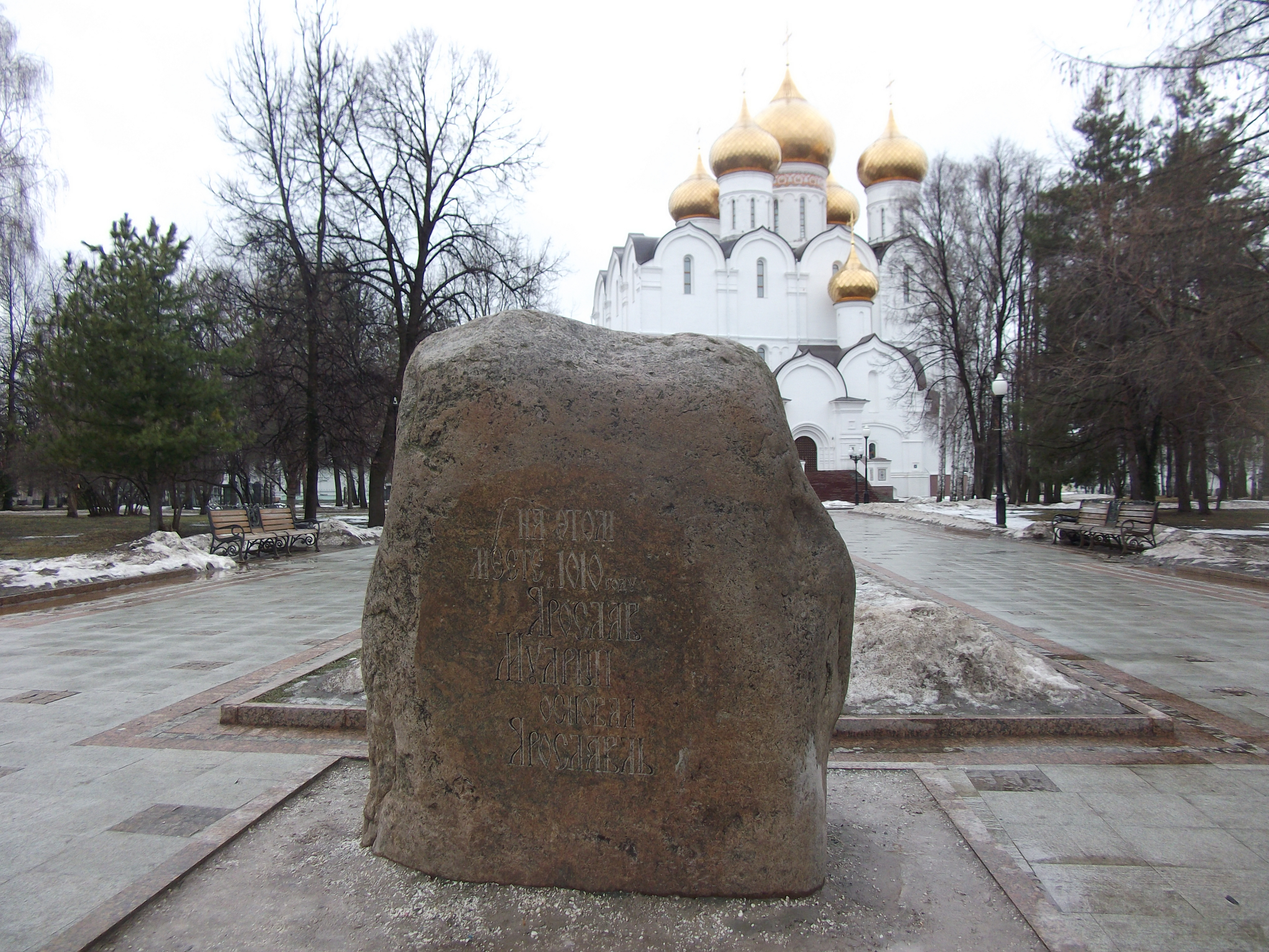 Стрелка - Ярославль